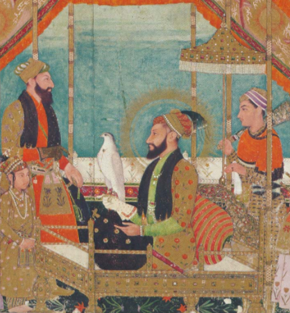 Aurangzeb is seated on the throne. His son Azam Shah stands before him, alongside other nobles and courtiers.